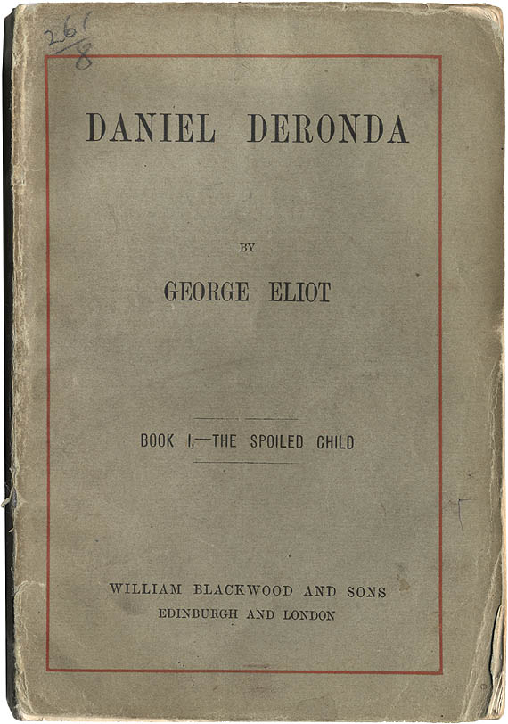 Cover of the first edition of George Eliot's Daniel Deronda.